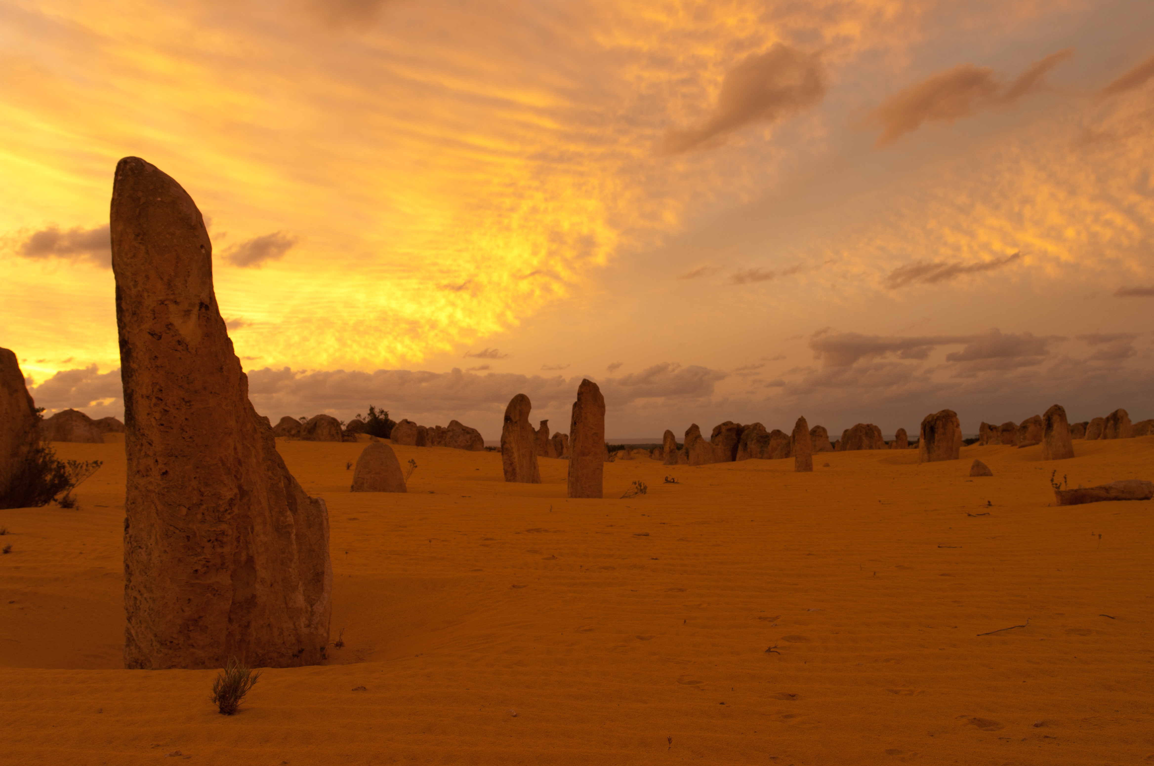 The Pinnacle Desert, Nambung National Park.